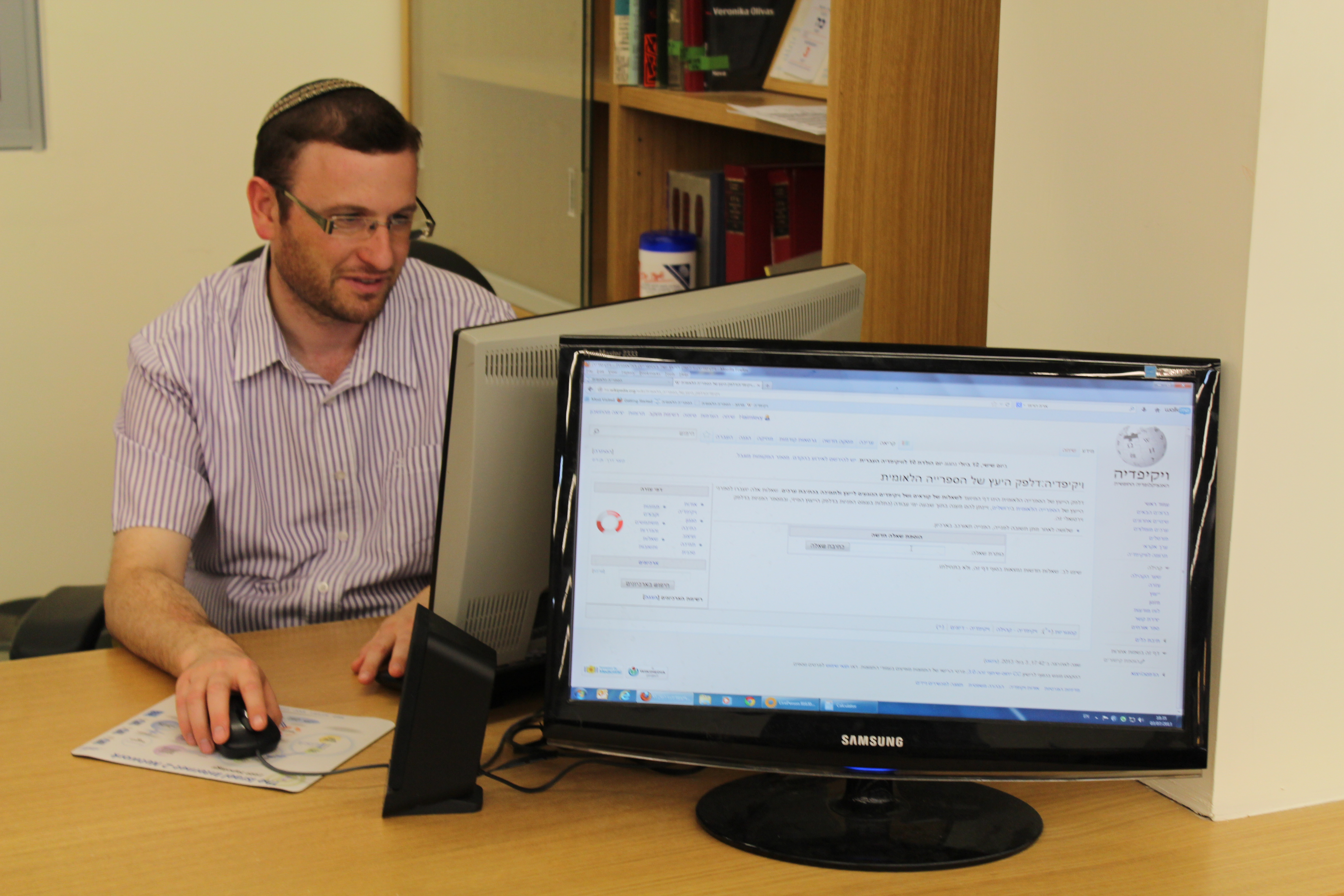 The reference desk at the Israeli National Library.